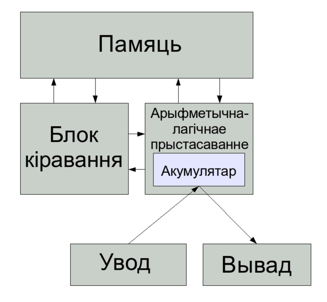 Von Neumann architecture on Belarusian